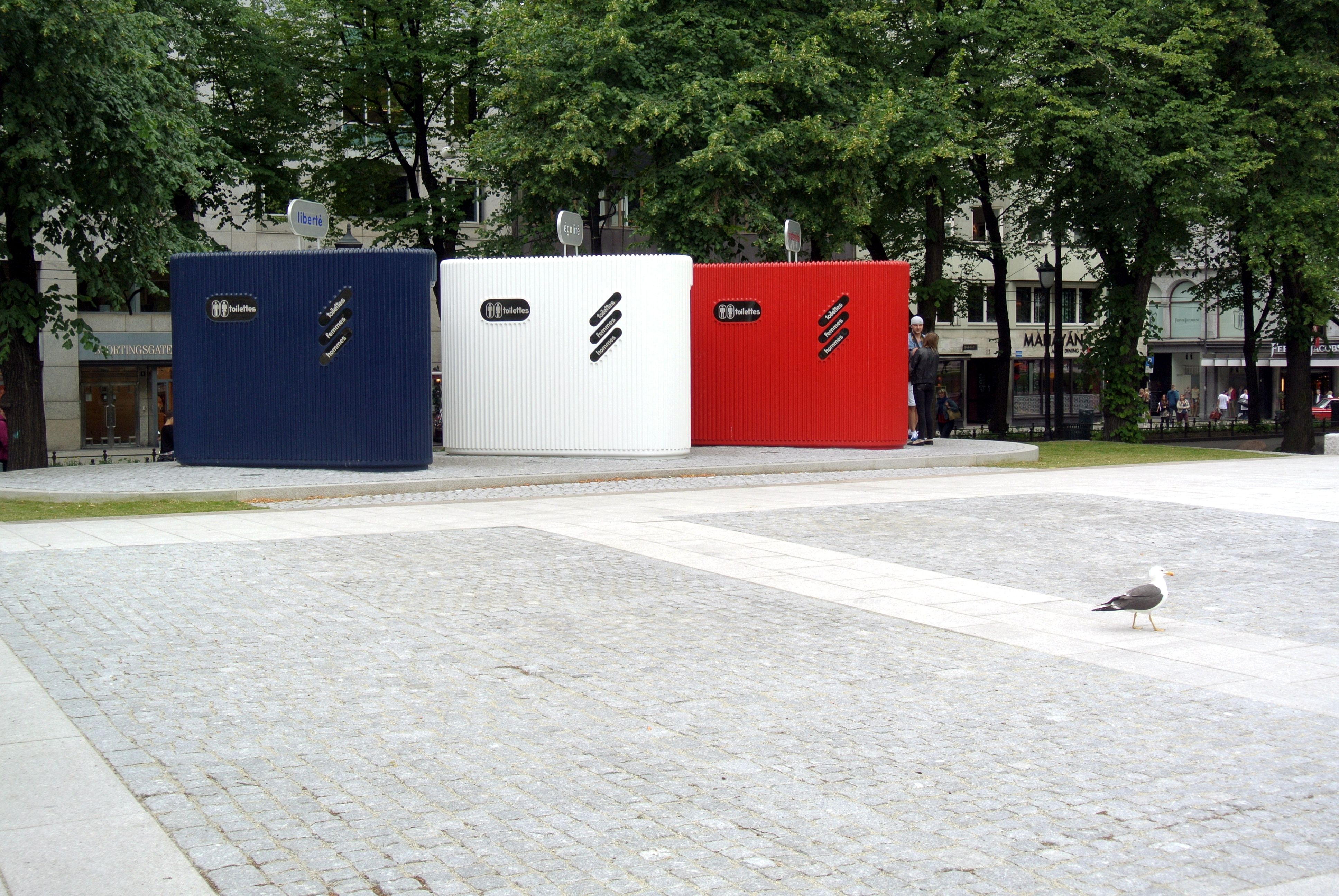 French-made public toilets displaying the national colors of France on the Spikersuppa in the city center of Oslo.